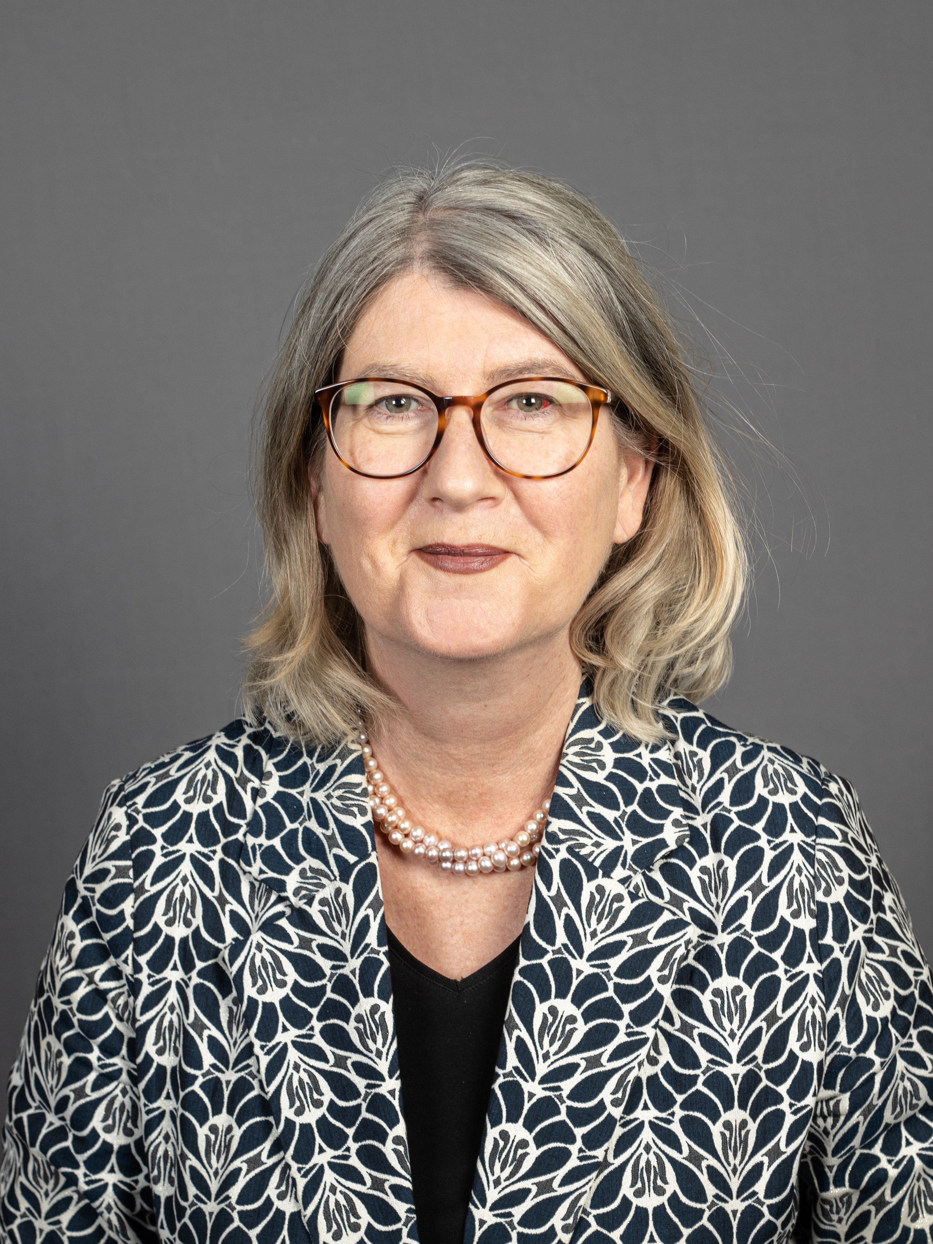 Member of German Parliament Britta Dassler in 2020